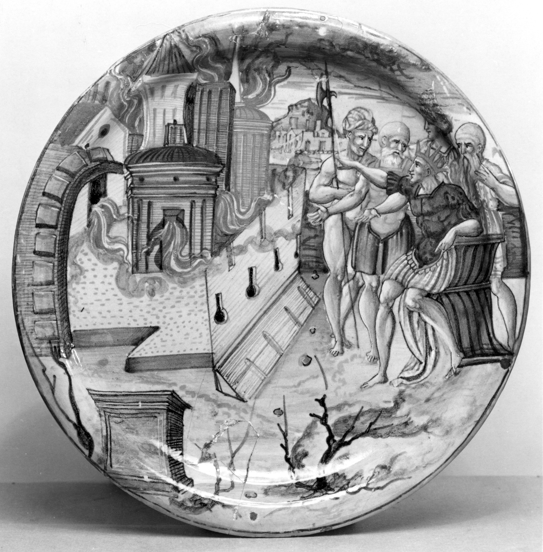 This plate with an overhanging edge is painted in blue, pale copper-green, yellow, ochre, manganese, grey, brown, blue-black and opaque white, and in gold and ruby lustre. At the left, a group of buildings is in flames. At the right, with one arm extended toward the fire is a seated warrior, crowned, and four companions. The man at the left wears a turban and holds a long battle axe. In the background are a town and water. The back is bluish-buff and is decorated on the marli with four spirals in ruby lustre converted into leaf scrolls by gold lustre additions. In the center is "1534" in pale ruby lustre. The scene perhaps depicts the burning of Rome in the presence of Nero, or Alexander ordering the destruction of the Palace of Persepolis.